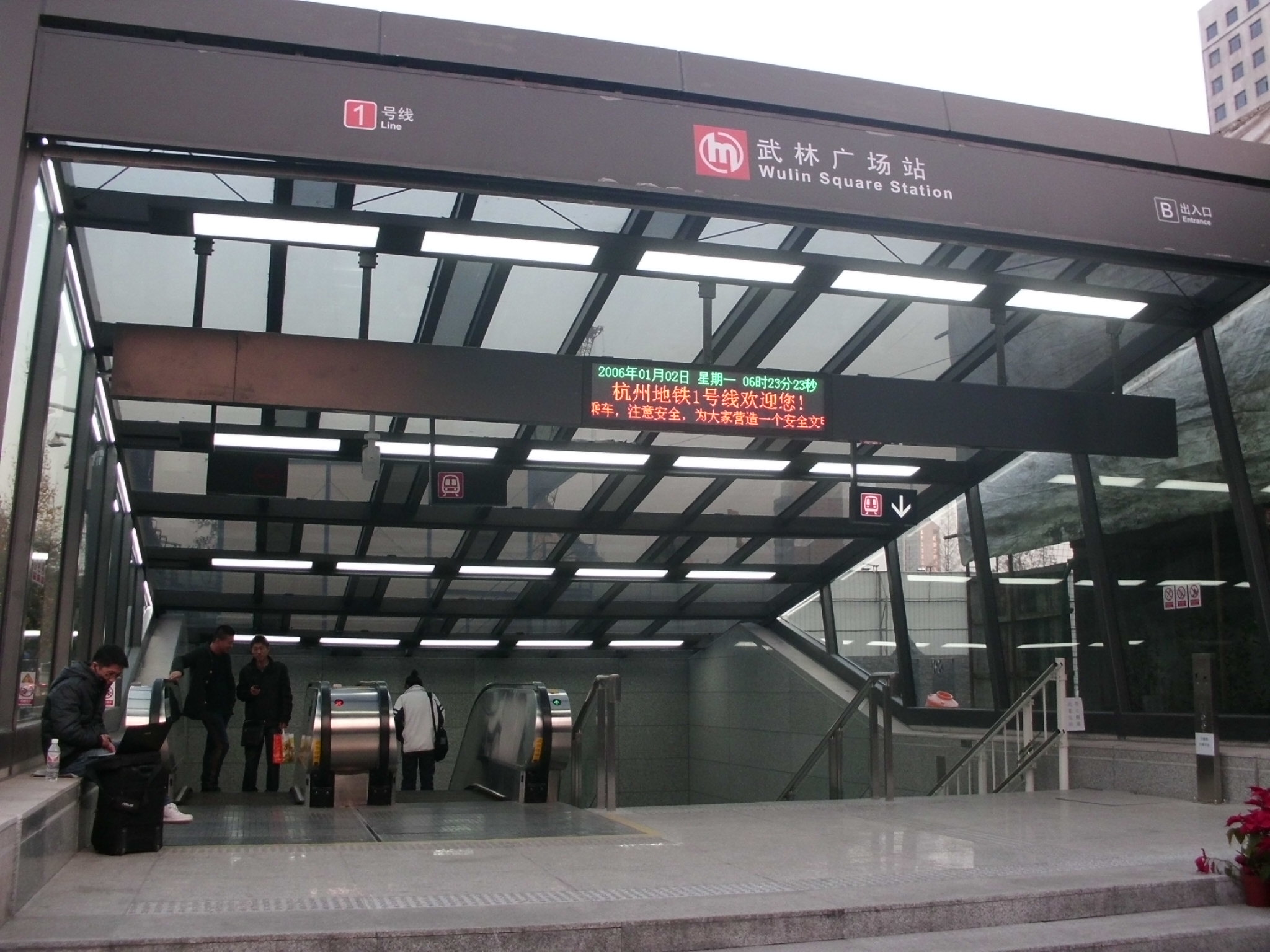 Wulin square station